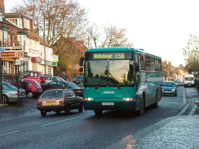 Arriva Bus Passing Bus Stop At South End Of Westgate. Taken at dusk on 19th November 2005. The bus stop area is paved with blue scorrae blocks, made from a by-product of the Teesside steel industry